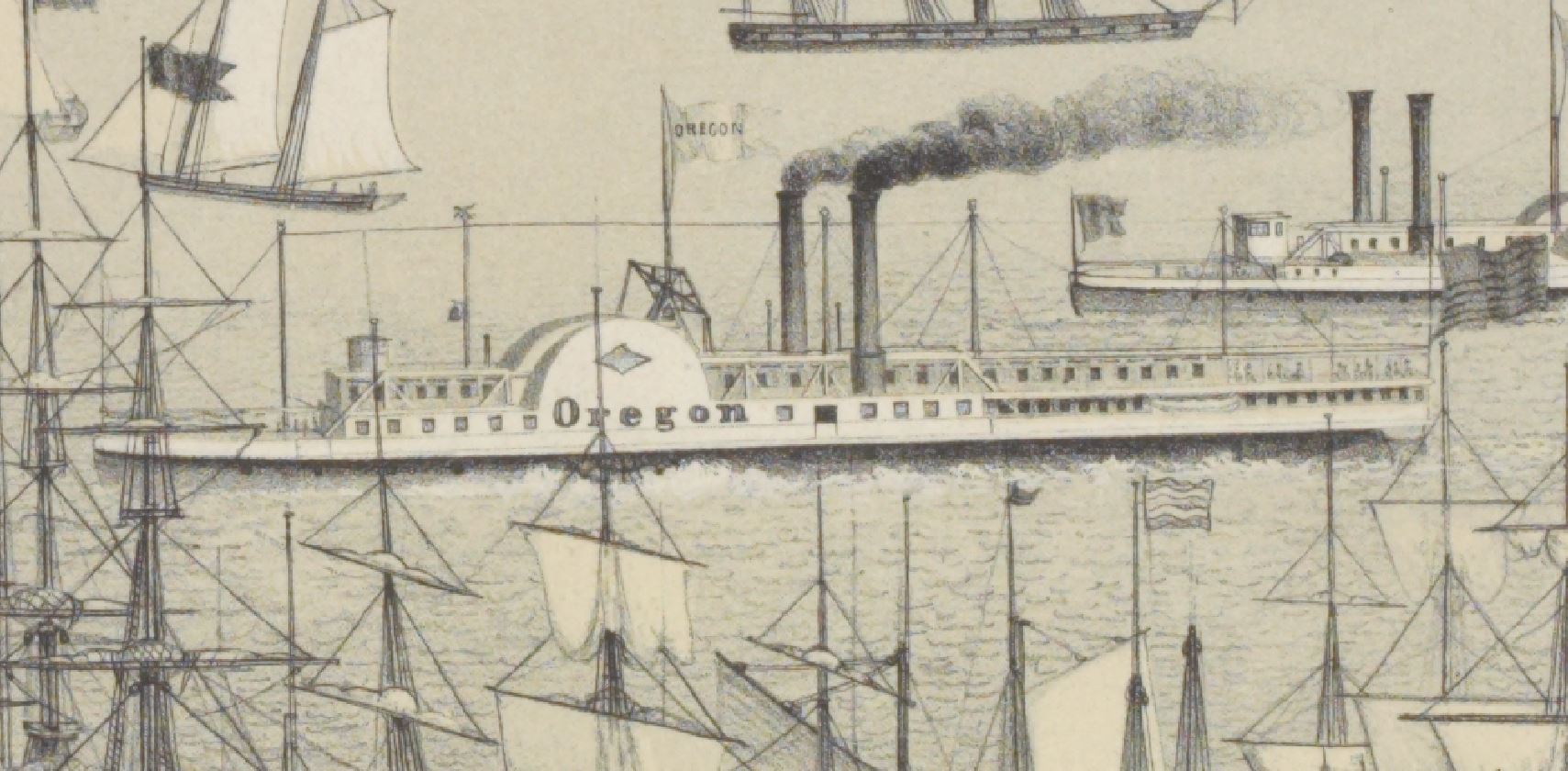 PSS Oregon (ship, 1845)